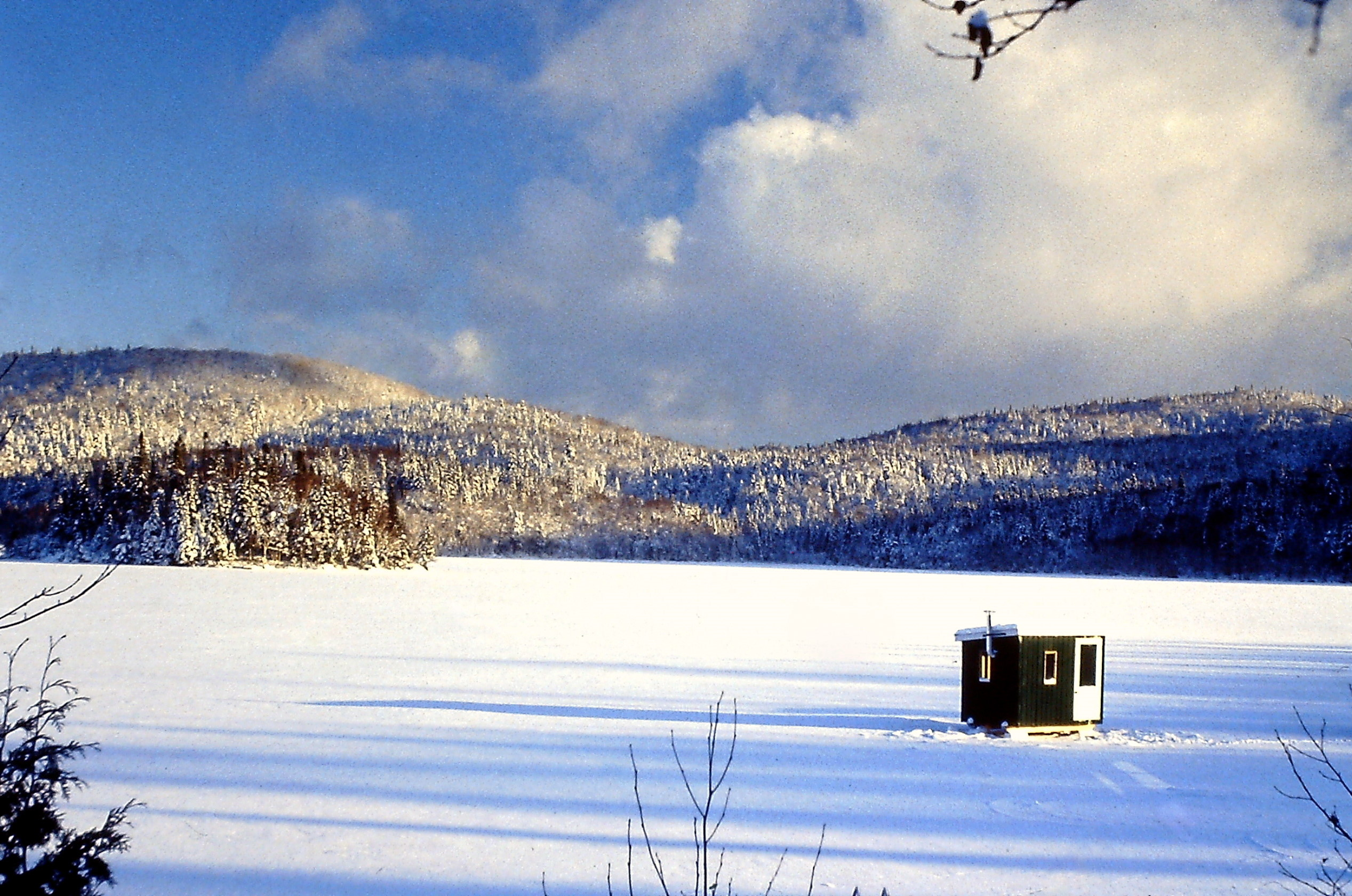 Fishing on ice, Lac des Îles, Province of Quebec